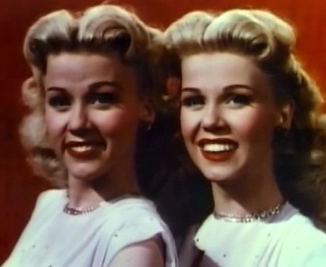 Cropped screenshot of Wilde Twins from the film Till the Clouds Roll By.